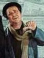 Julio de Grazia